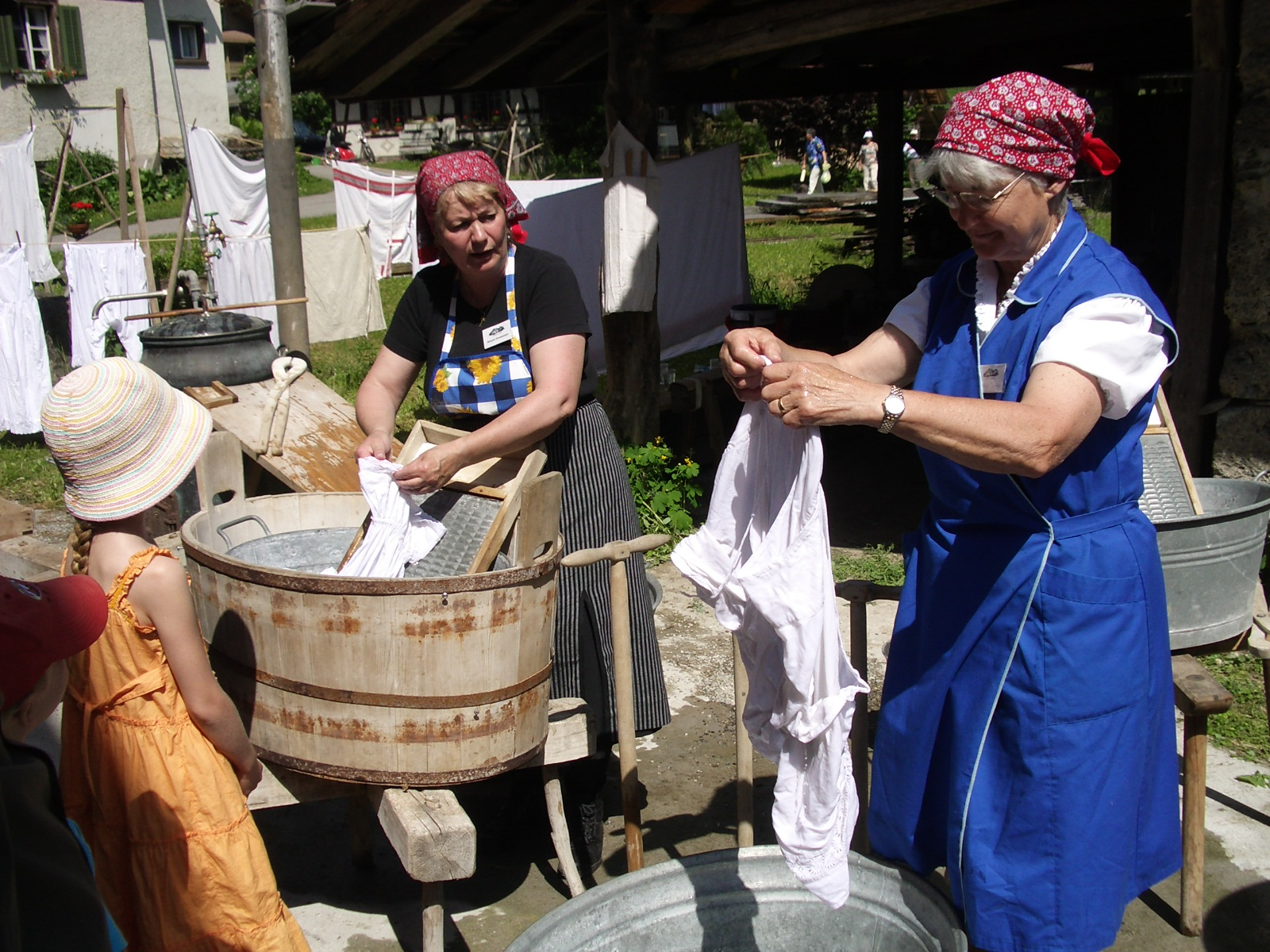 Stallikon ZH, Switzerland